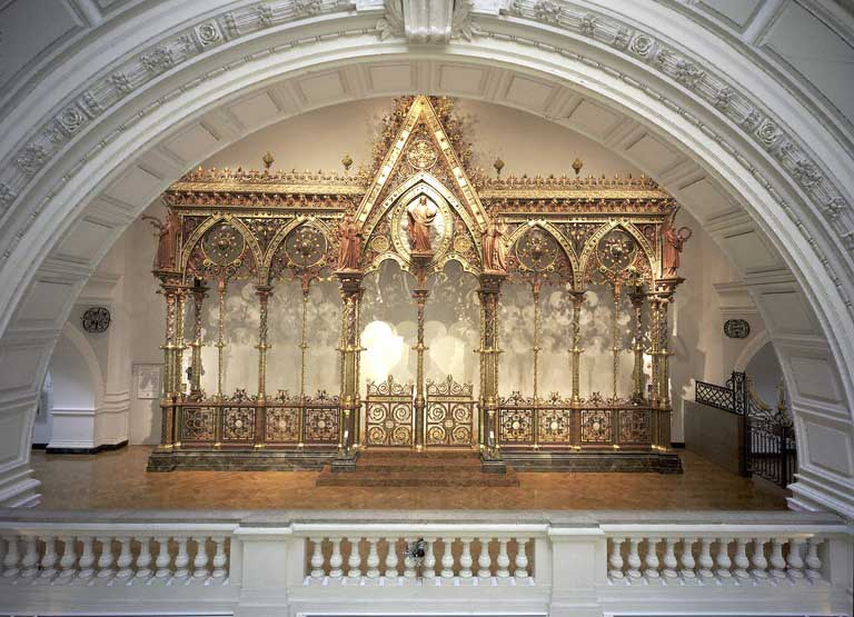 The Hereford Screen, 1862, designed by Sir George Gilbert Scott and made by Skidmore & Co. V&A Museum no. M.251-1984 (Link) Techniques - Wrought and cast iron, brass, copper, semi-precious stones, and mosaics Place - Coventry, England